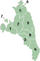 List of districts (fivondronana) in Antsiranana province